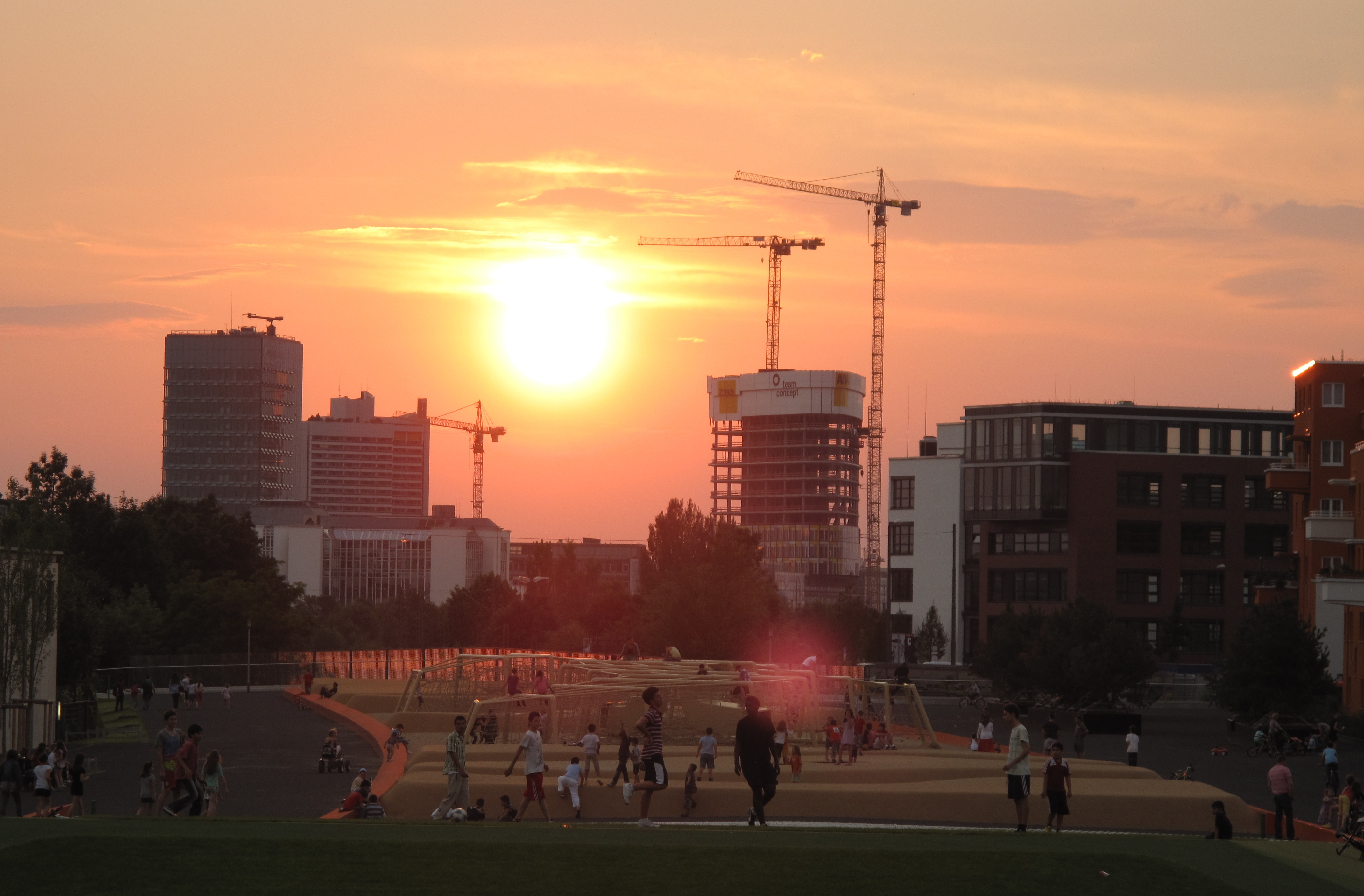 The Quartiersplatz Theresienhöhe in Munich's district Schwanthalterhöhe.